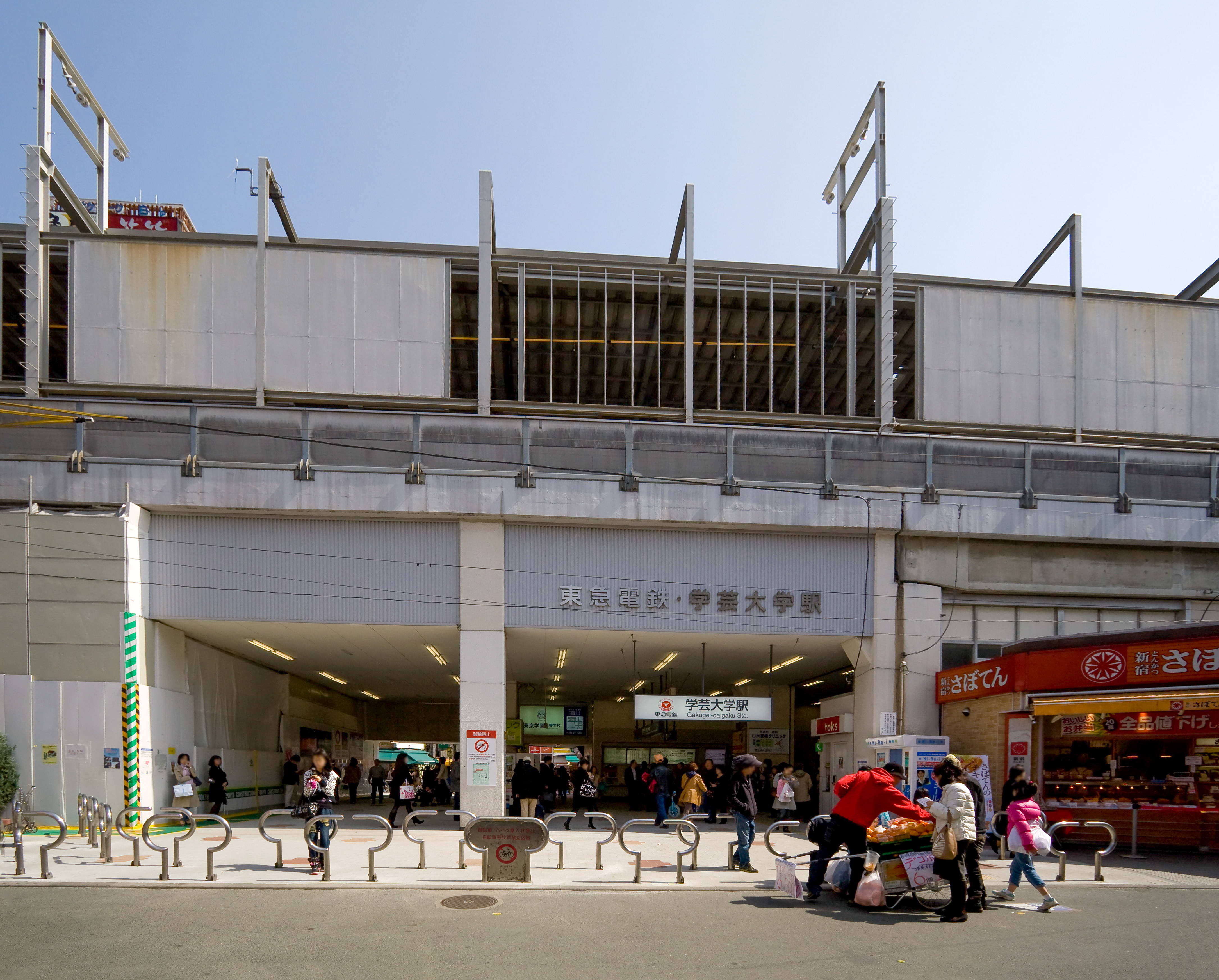 Gakugei-daigaku Station